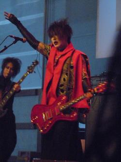 Közi manga party 2011 Parc des Expositions de Paris